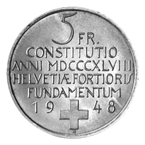 Swiss Commemorative Coin 1948 CHF 5 reverse "5 FR. / CONSTITUTIO / ANNI MDCCCXLVIII / HELVETIÆ FORTIORIS / FUNDAMENTUM / 1948"